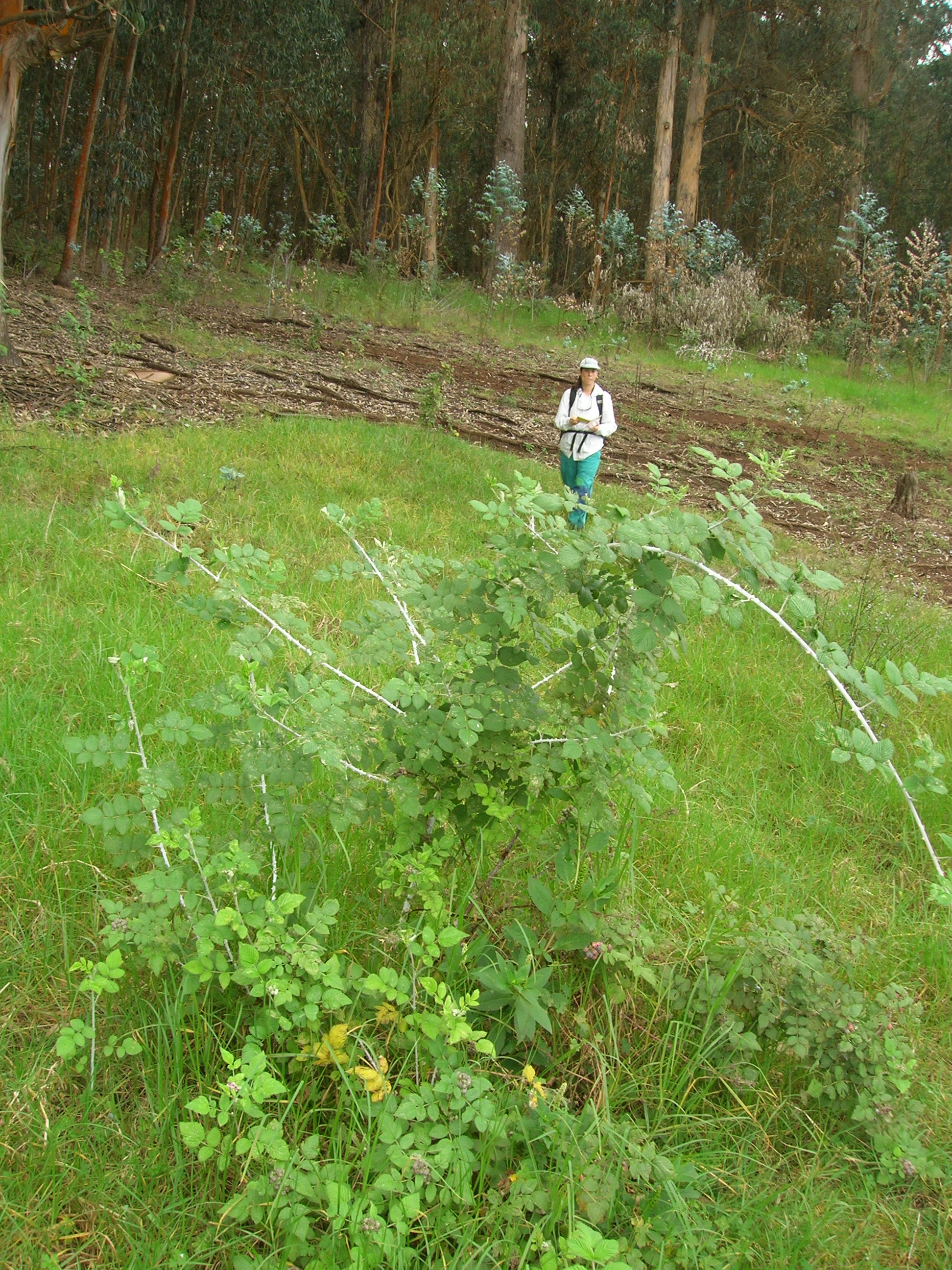 Rubus niveus f. a (habit). Location: Maui, Haleakala Ranch